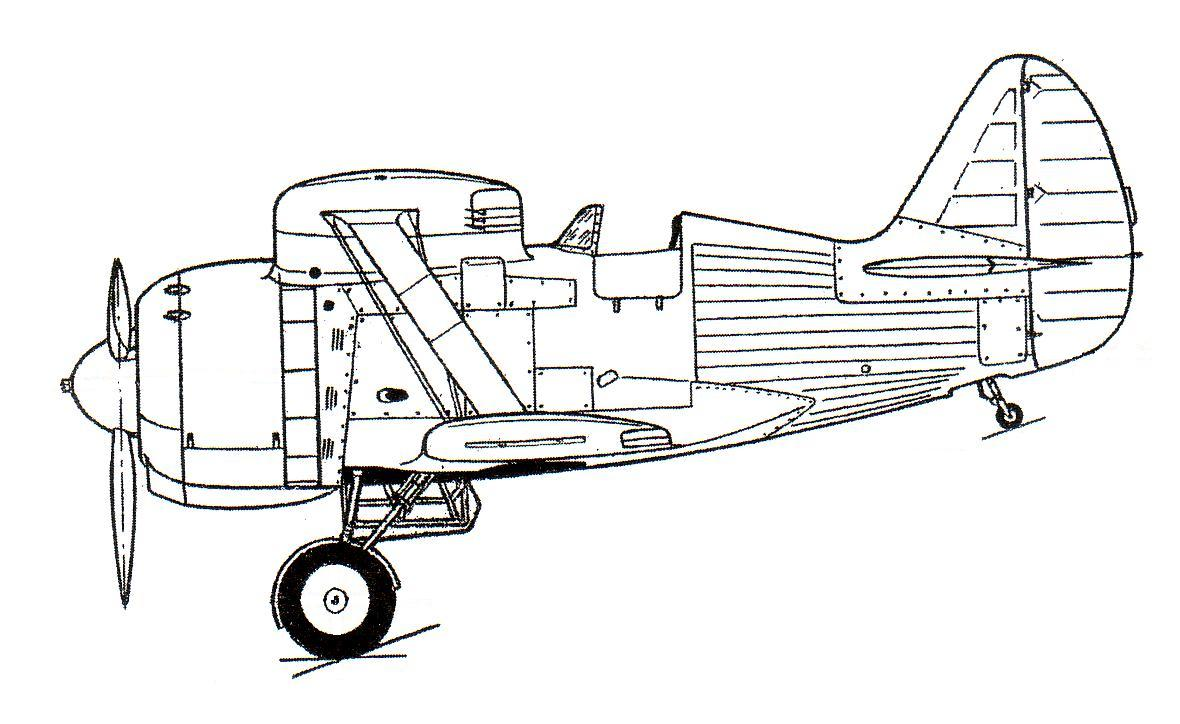 drawing I-190